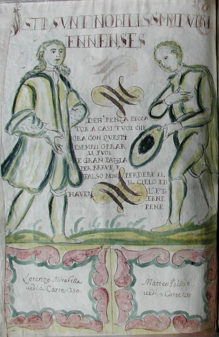 Illustration representing Lorenzo Mirabella